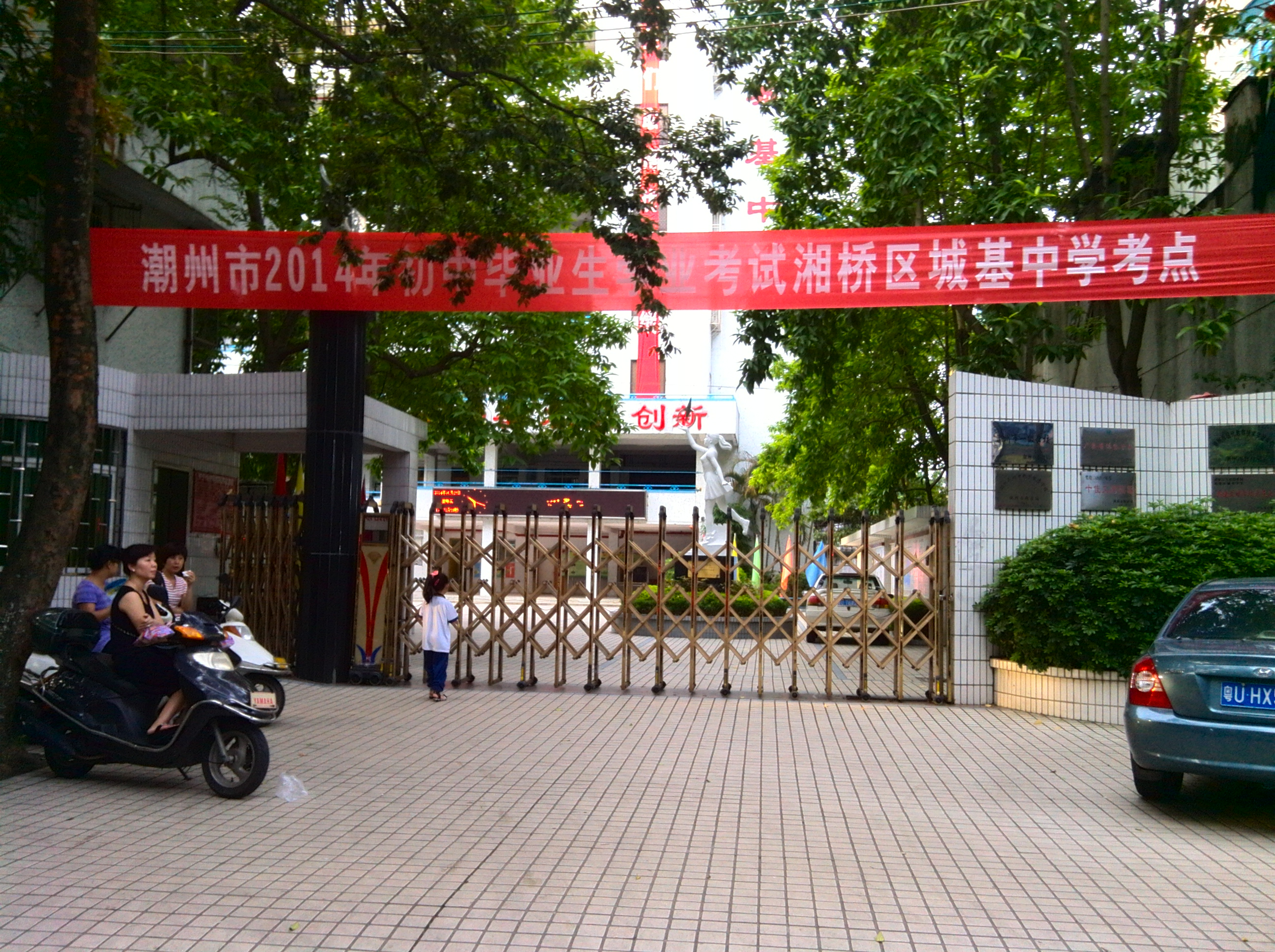 School Door of Chaozhou Chengji Middle School.